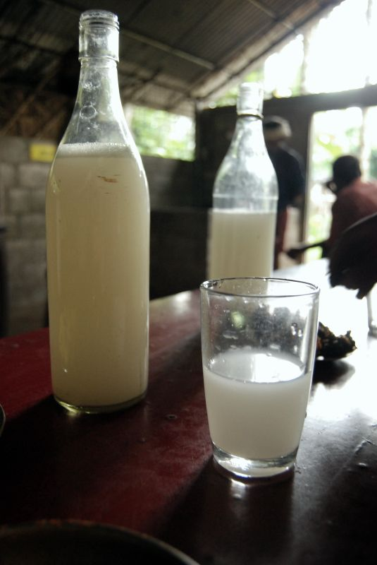 Toddy made with the sap of coconut (Cocos nucifera) flowers.